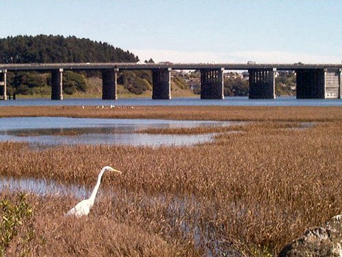 A Great Egret in Bothin Marsh, Marin County, California, United States, with Richardson Bay Bridge in the background.